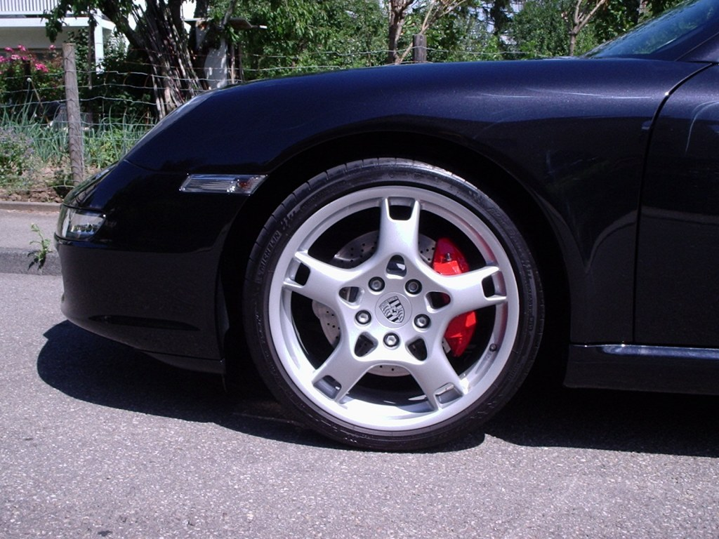 Porsche 911, Modell 997 (Carrera S) Picture taken by myself in summer 2005, my own car.